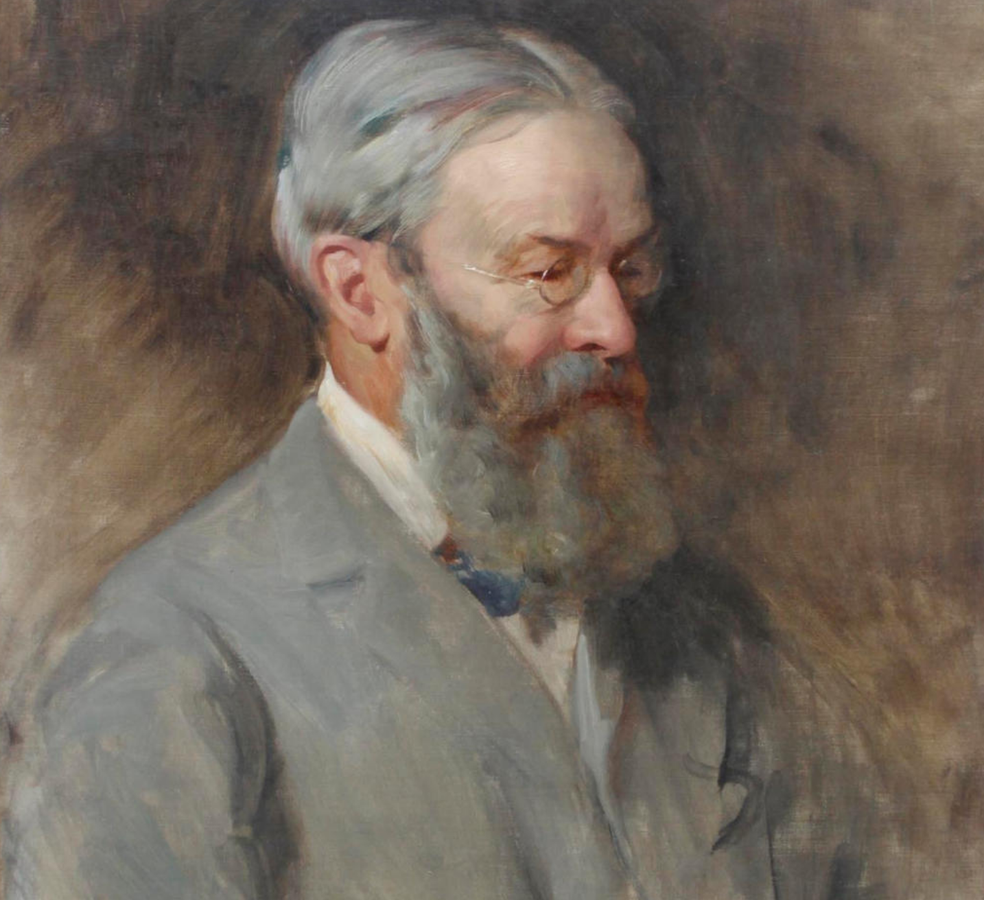 Detail from a 1914 portrait of William Chesterman by Tennyson Cole (1862 - 1939)